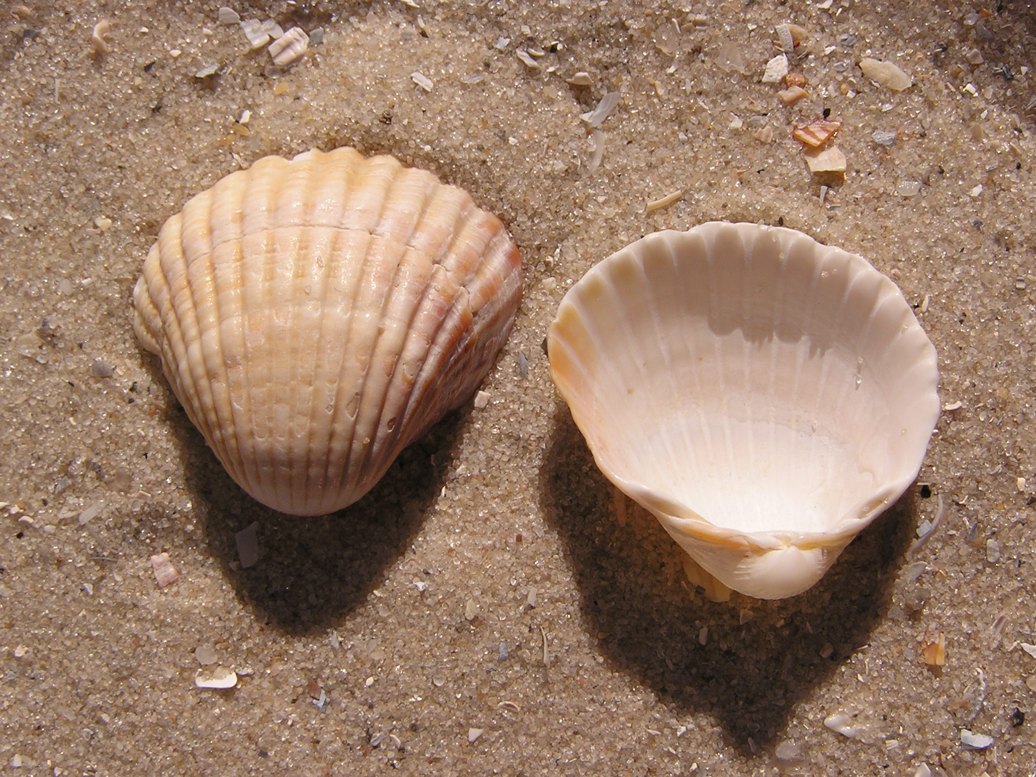 Lagoon cockle (Cerastoderma glaucum) shells.